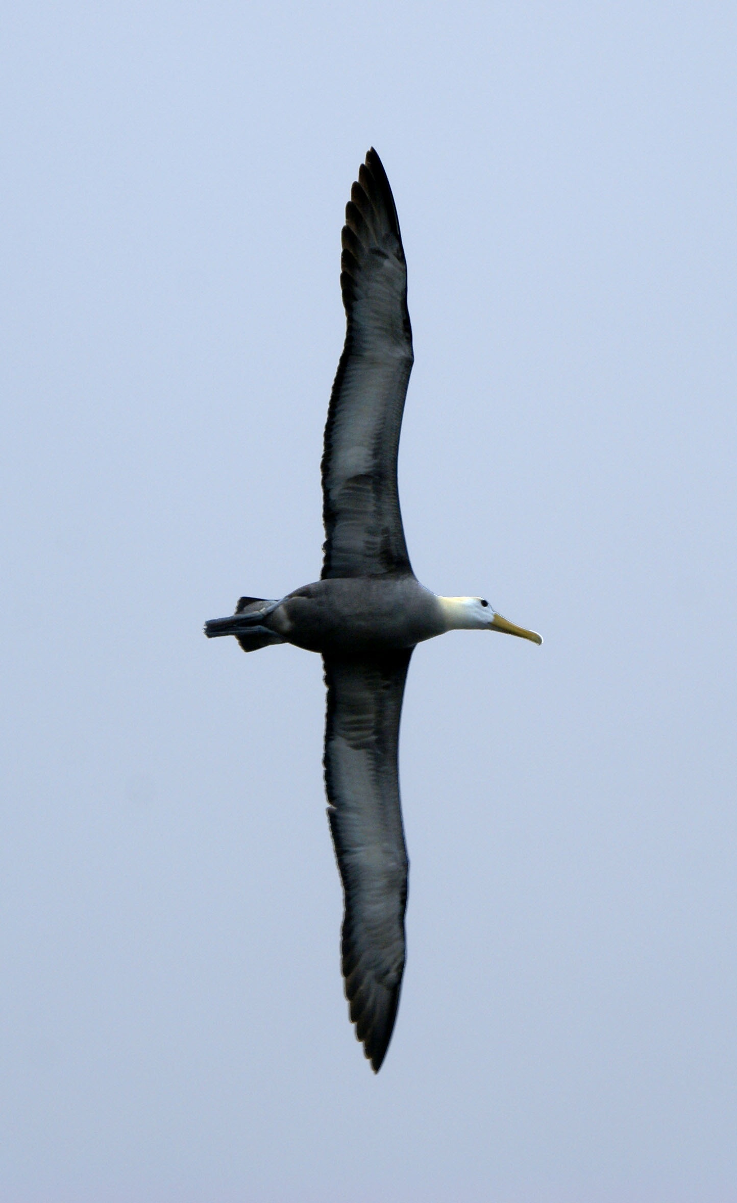 Waved-albatross Phoebastria irrorata Espanola Island Galapagos